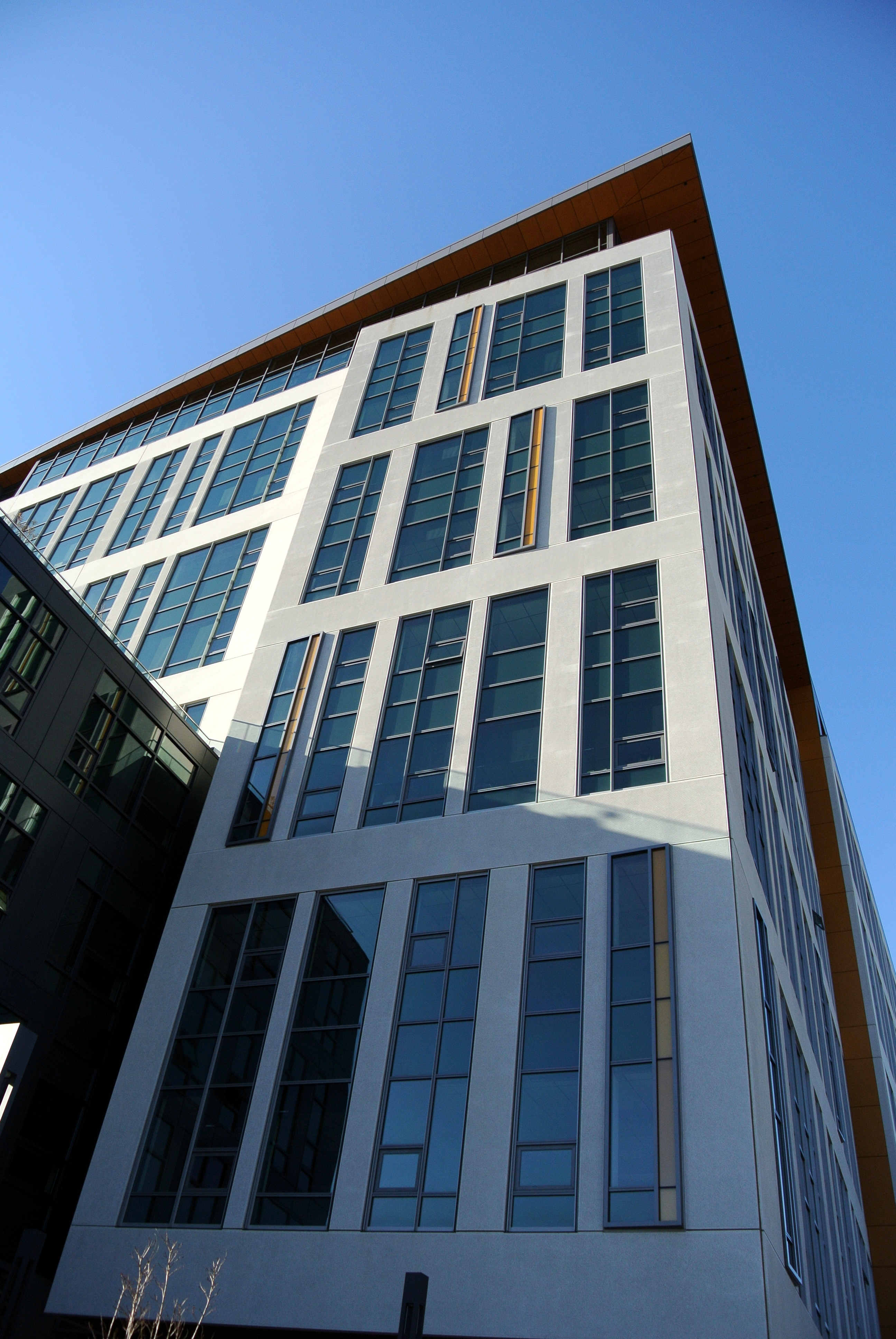 Amazon headquarters building in Seattle (South Lake Union), John and Boren St.